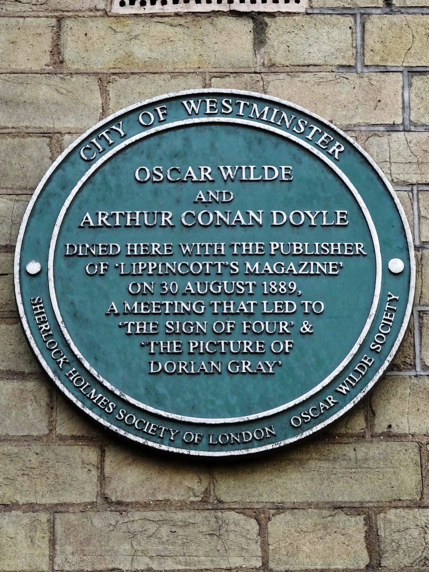 Green plaque erected by City of Westminster at 1c Portland Place, Regent Street, London W1B 1JA